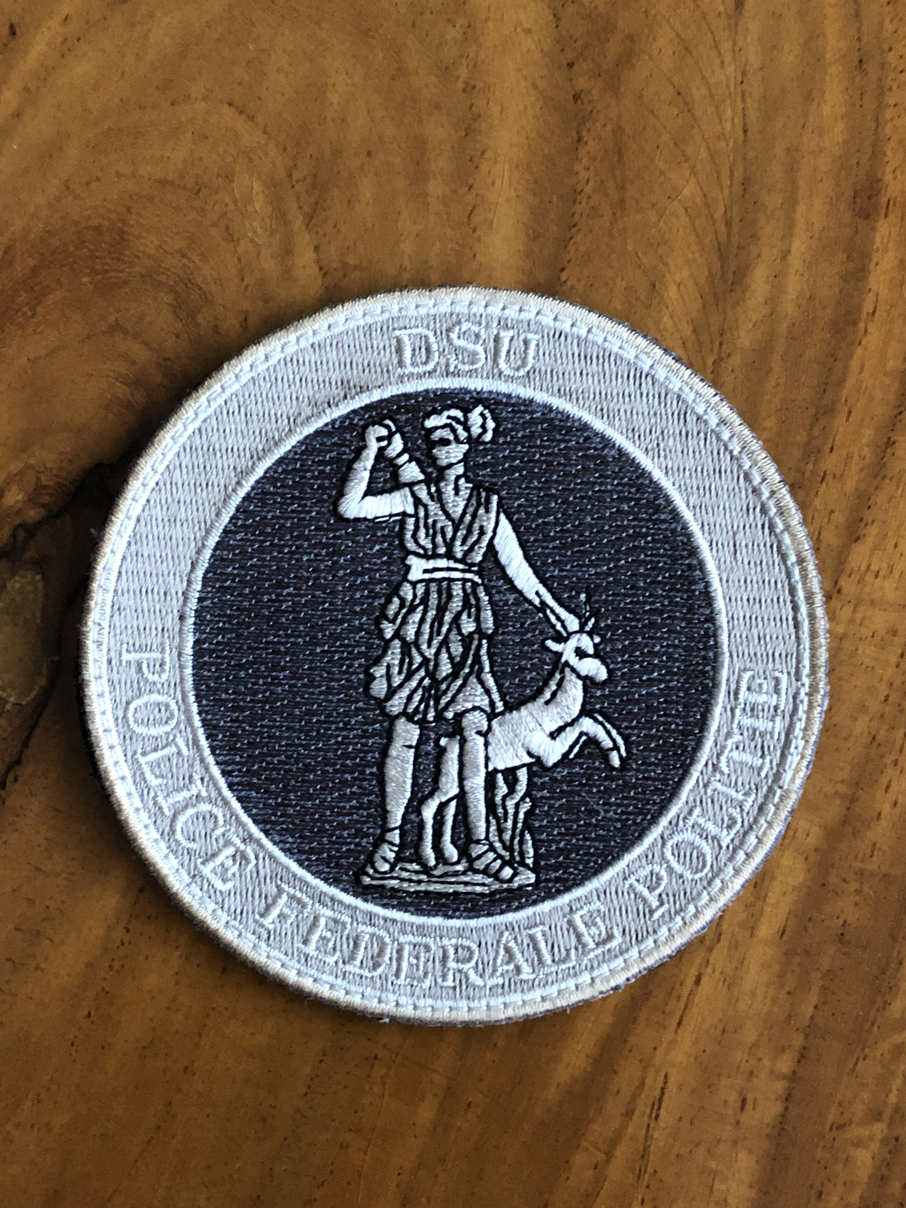 A replica patch of the Directorate of special unit. As of 2019, this design is defunct.